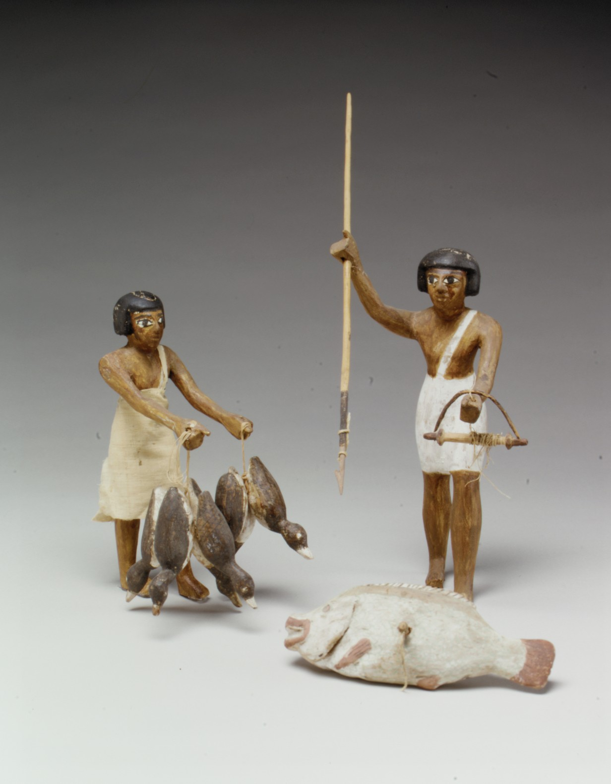 Boat, fishing and fowling, Meketre